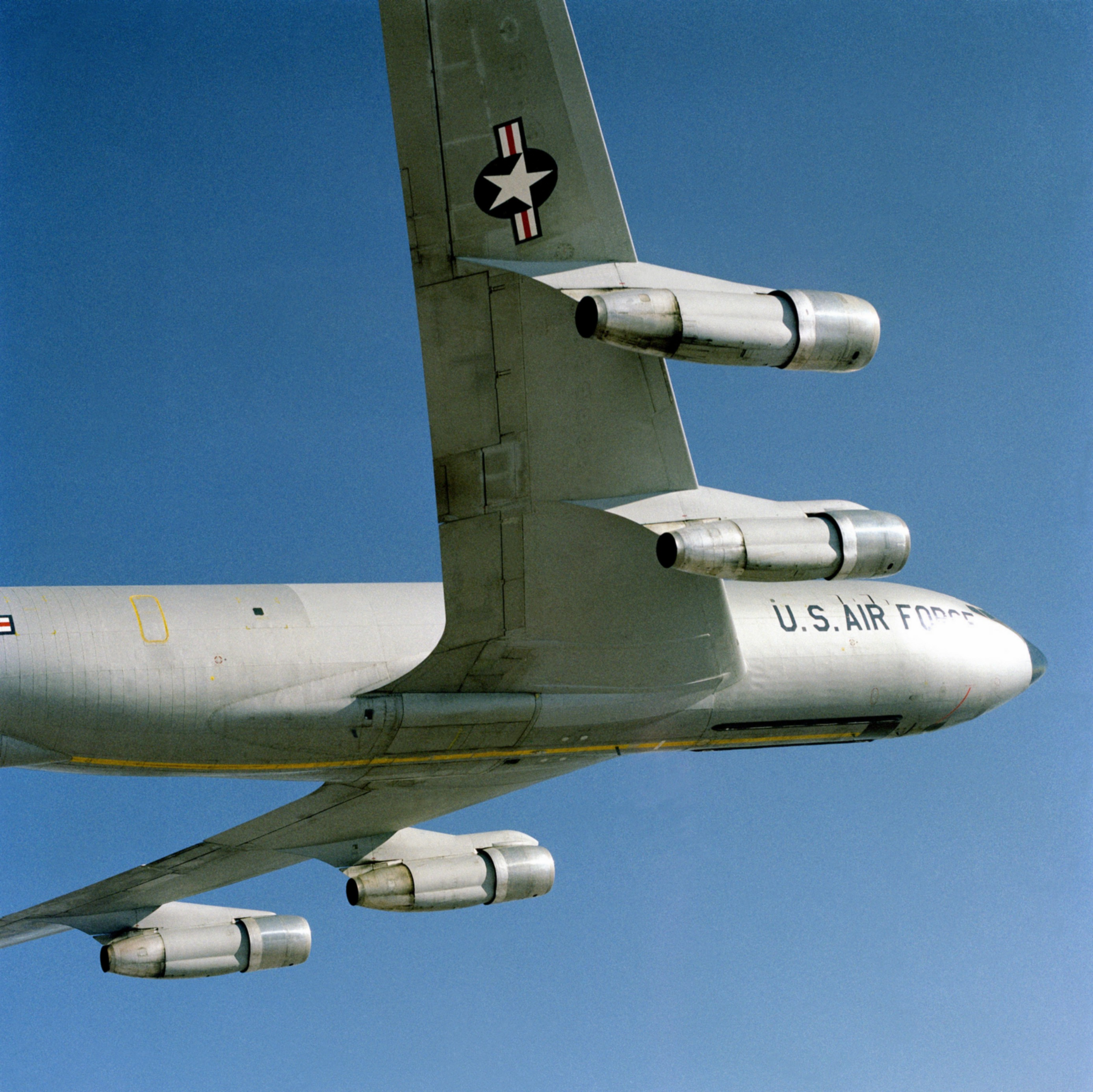 The first U.S. Air Force Boeing KC-135E Stratotanker aircraft (s/n 59-1514) undergoing flight tests at Edwards Air Force Base, California (USA), on 4 March 1982, after being re-engined with Pratt & Whitney TF33-PW-102 turbofan engines.